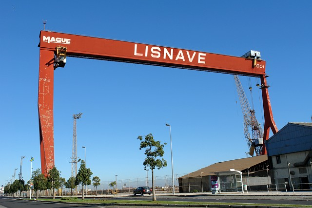 Industrial crane used in ship buiding and repair by the Portuguese company Lisnave. Photography by: Osvaldo Gago